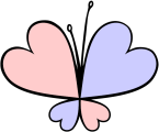 The butterfly logo is constructed out of four hearts: a big blue for man, a big pink for woman, a small blue for boy, a small pink for girl. The butterfly logo is used by pedophile organizations all over the world.